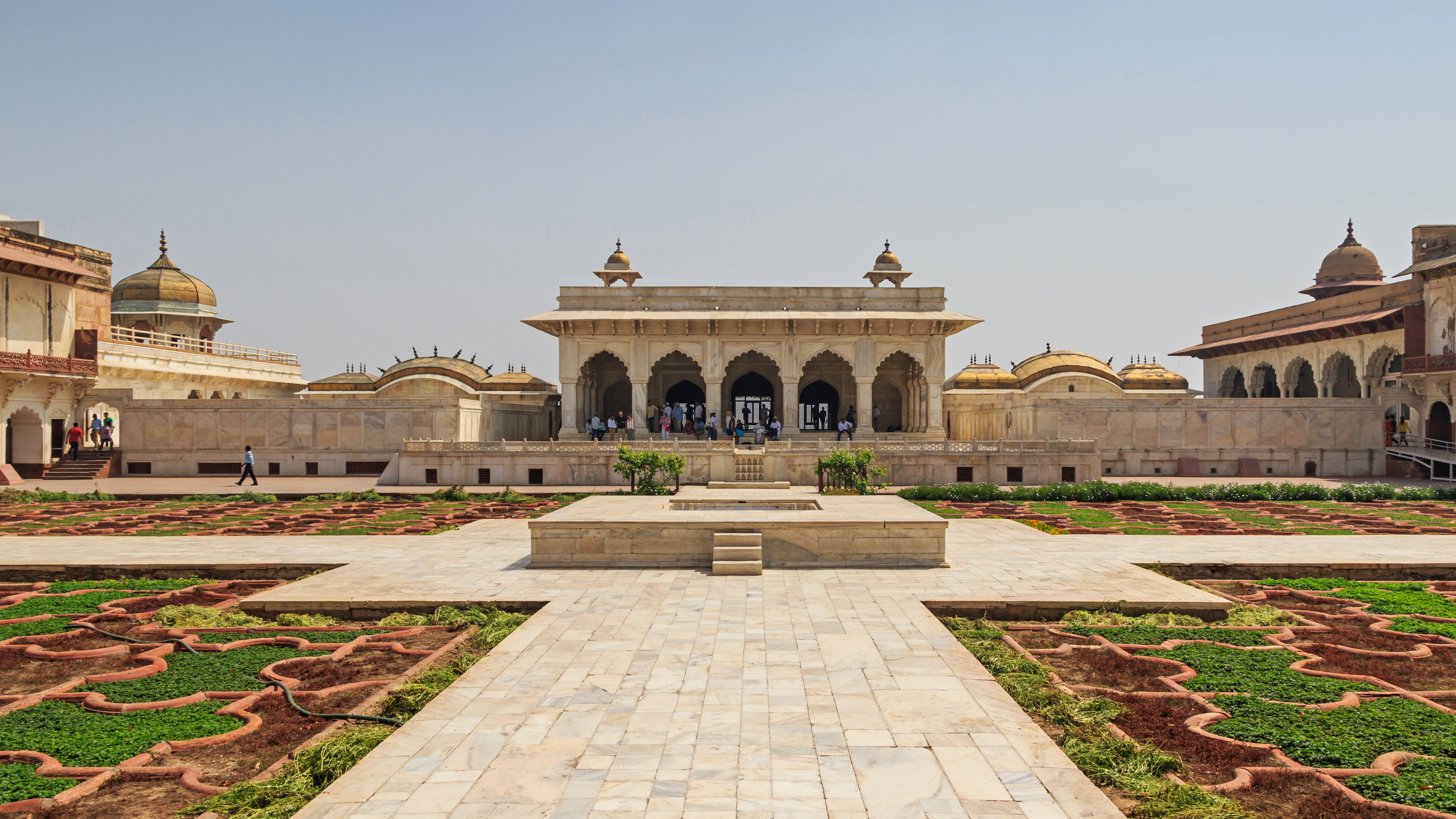 Agra Fort in Agra, India.